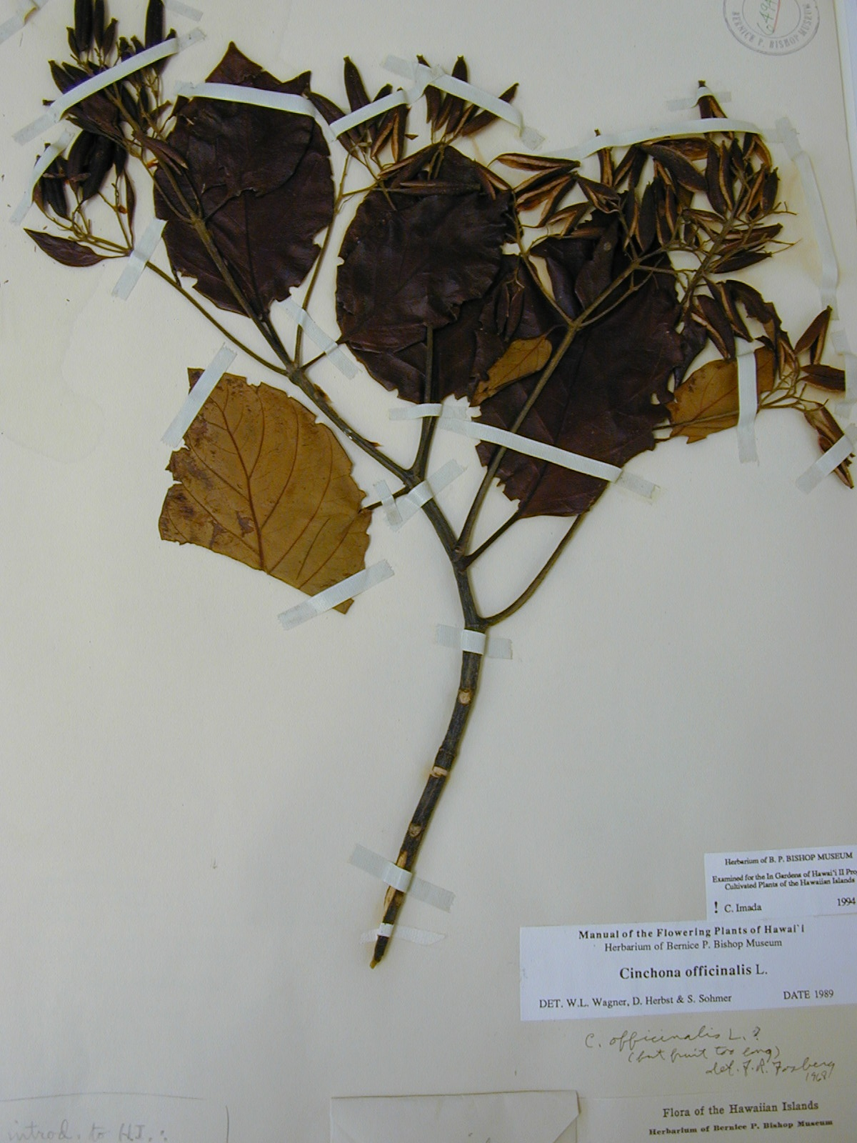 Cinchona pubescens (BISH specimen). Location: Maui, Ulupalakua